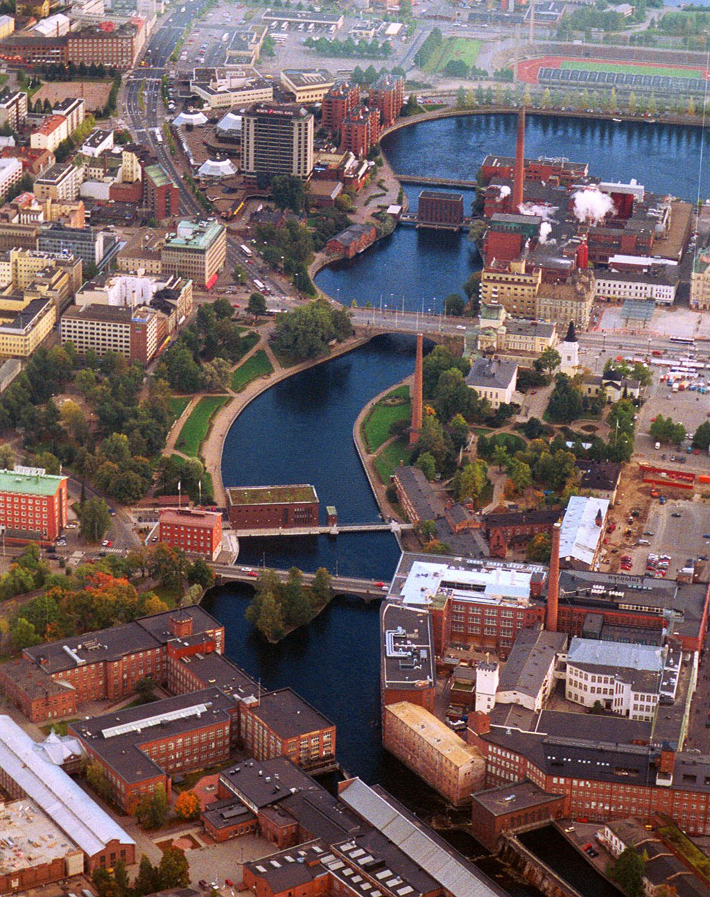 Tammerkoski in Tampere, Finland from air